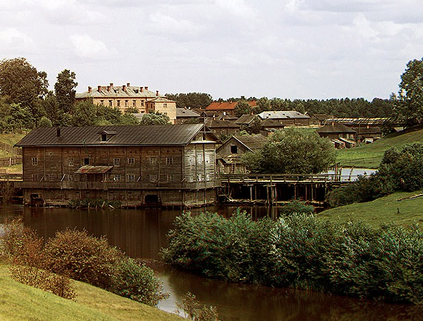 Mill by Polacak, Belarus Вадзяны млын ля Спаса-Эўфрасьньнеўскага манастыра ў Полацку, Беларусь